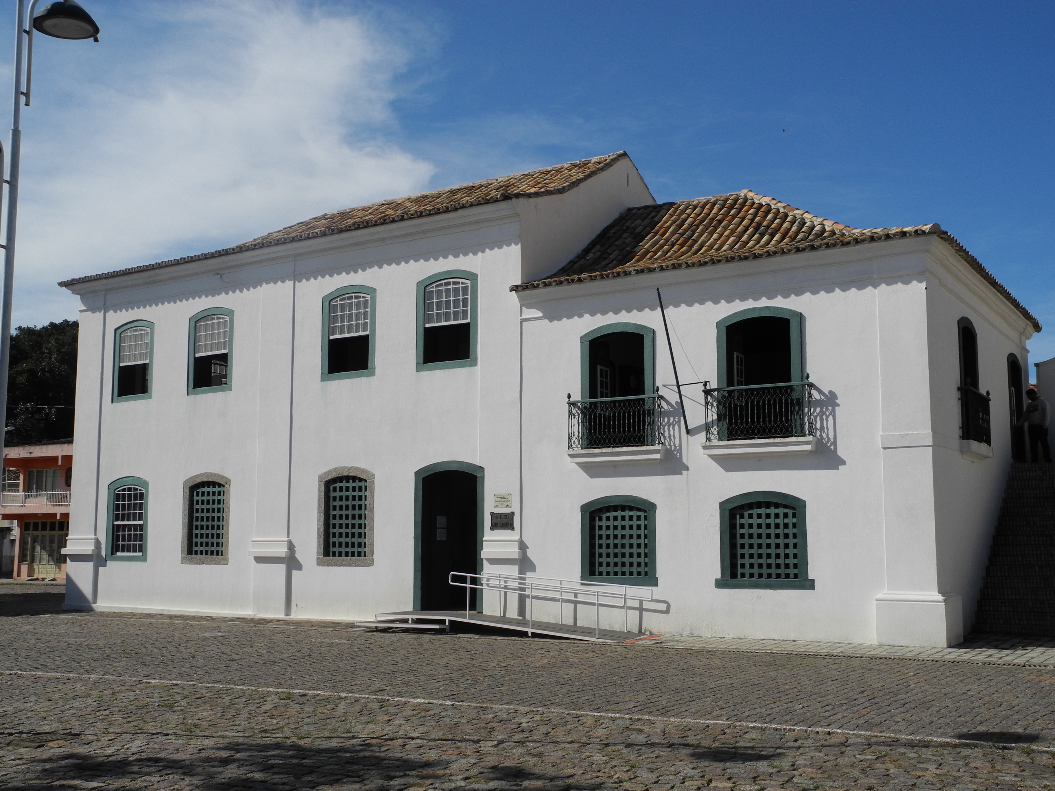 Anita Garibaldi Museum - Building - Laguna